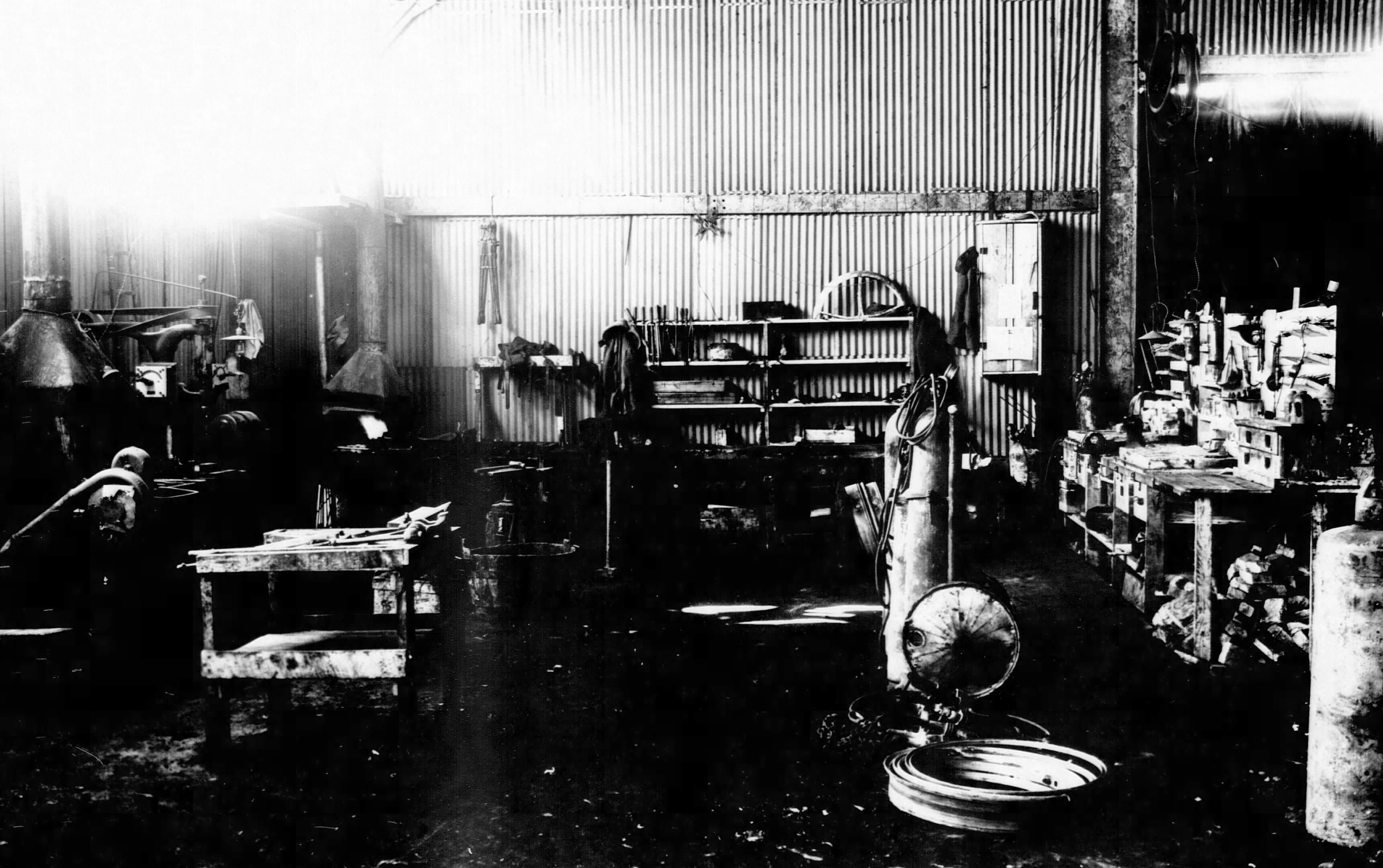 Colombey-les-Belles Aerodrome - 1st Air Depot Machine Shop Source: Series 1, Paris Headquarters and Supply Section, Volume 30 History of the 1st Air Depot at Colombey-led-Belles, Gorrell's History of the American Expeditionary Forces Air Service, 1917–1919, National Archives, Washington, D.C.